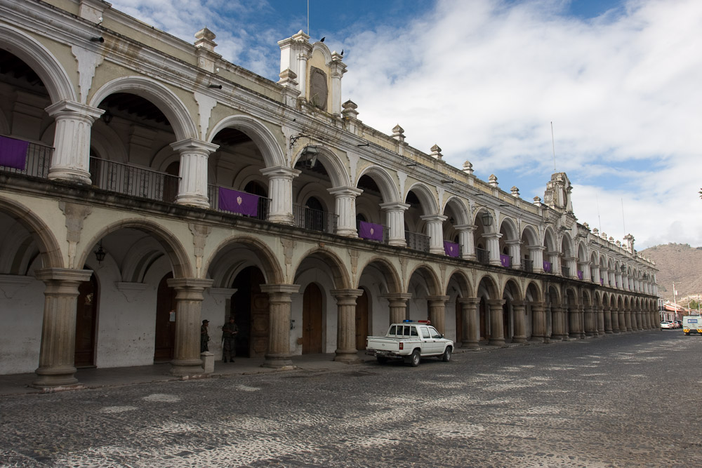 Palace of the Captains General